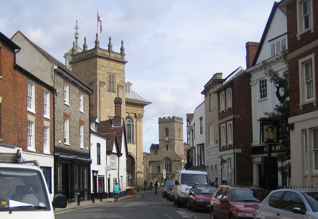 Abingdon: East Saint Helen Street. This is the road that links the parish churches of St Helen and St Nicholas. St Nicholas is the church with the tower in the distance; Abingdon's County Hall is the building with the flag on the left.